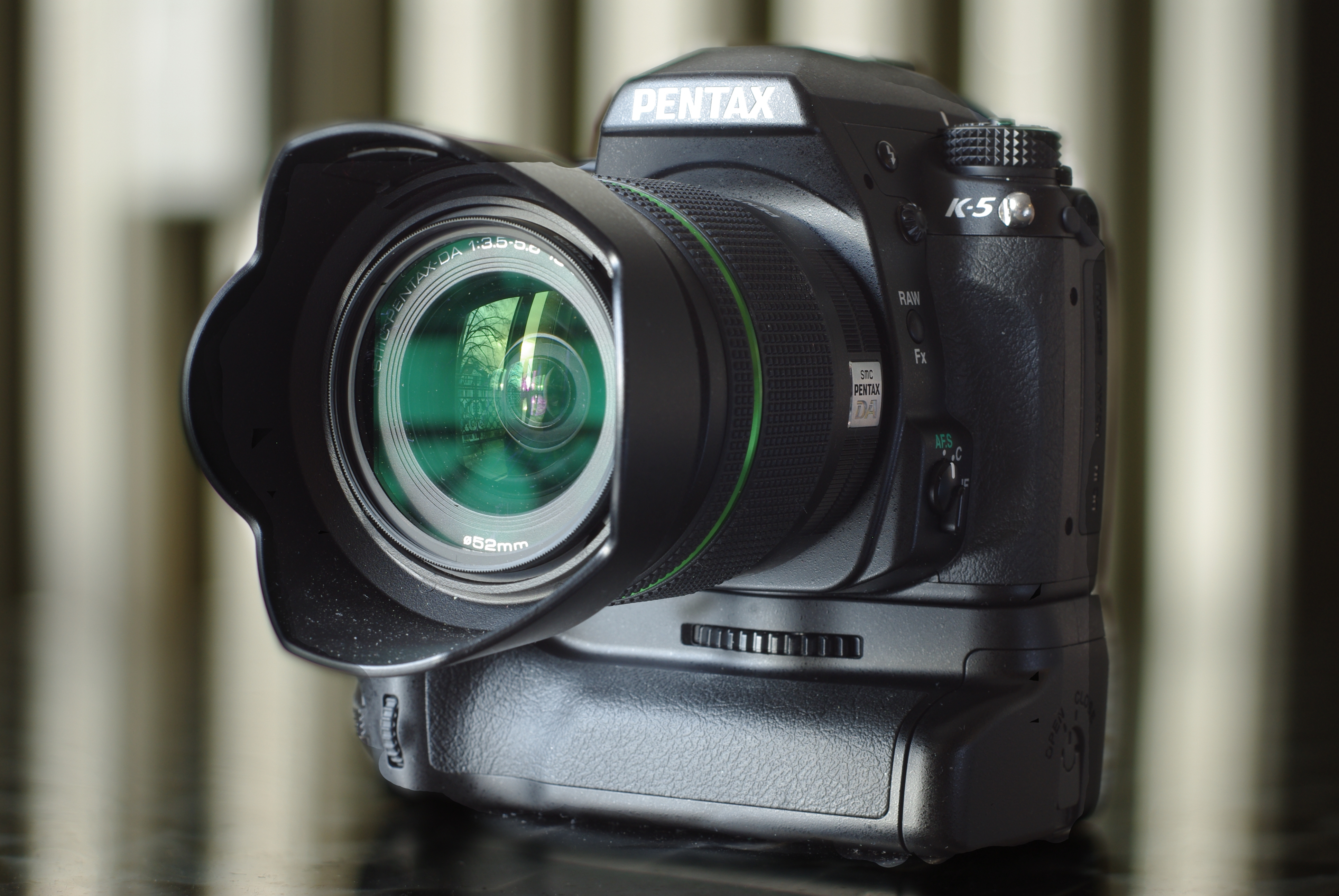 DSLR Pentax K-5 with Battery grip D-BG 4 and 18-55WR